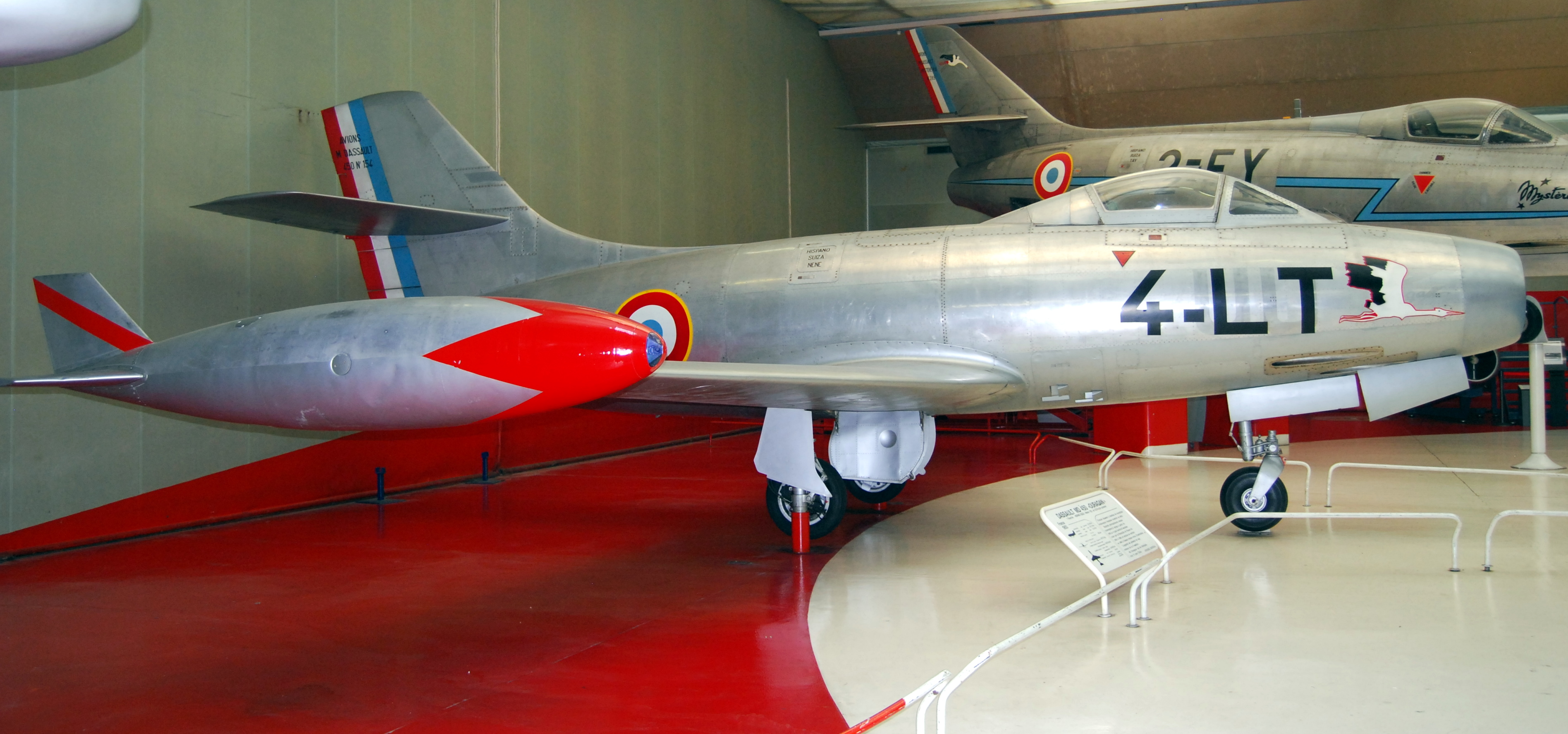 Photo ref; DSC1201-2012